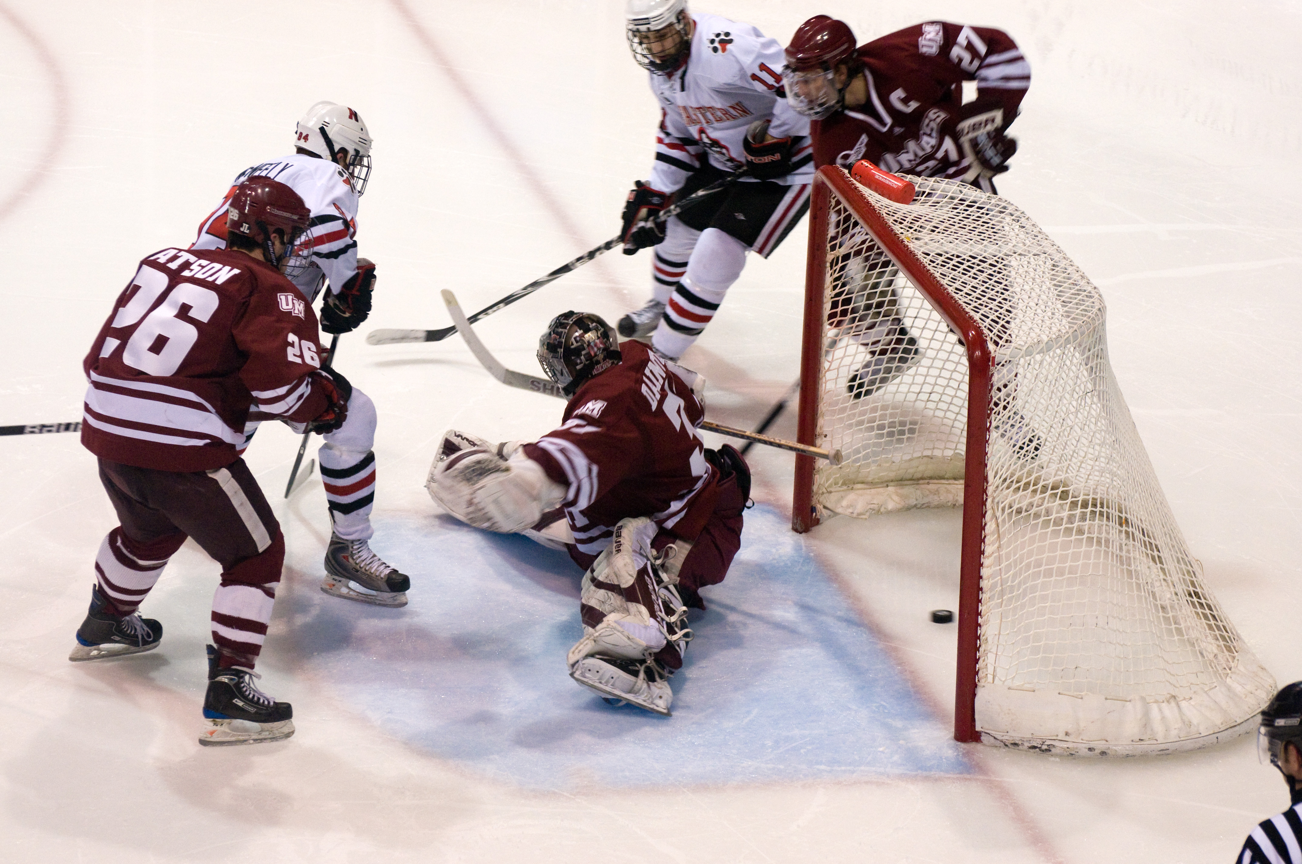 1/10/2010 UMass @ Northeastern; UMass won 4-1